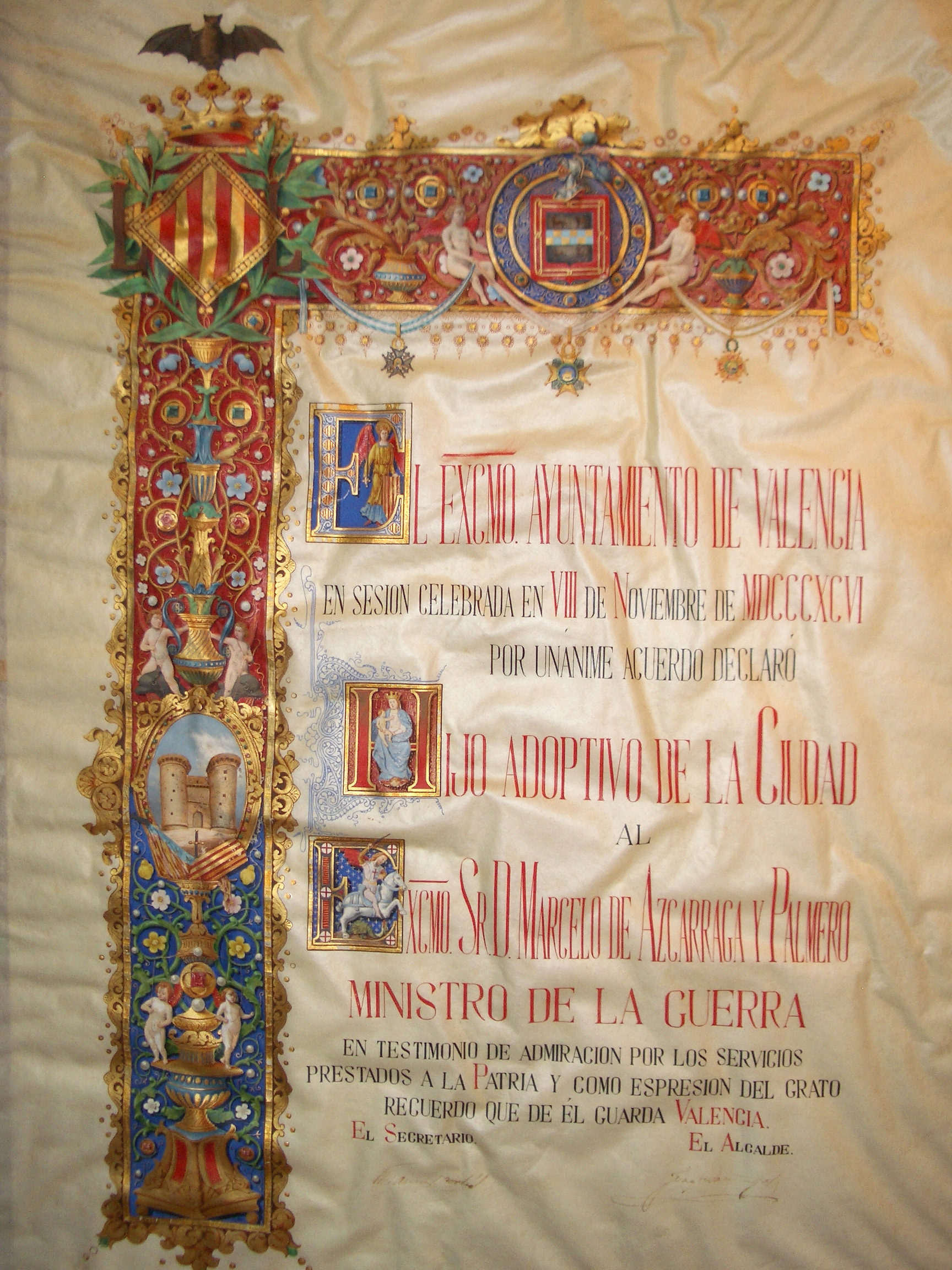 Picture of document granting Marcelo Azcárraga honorary citizenship of Valencia.